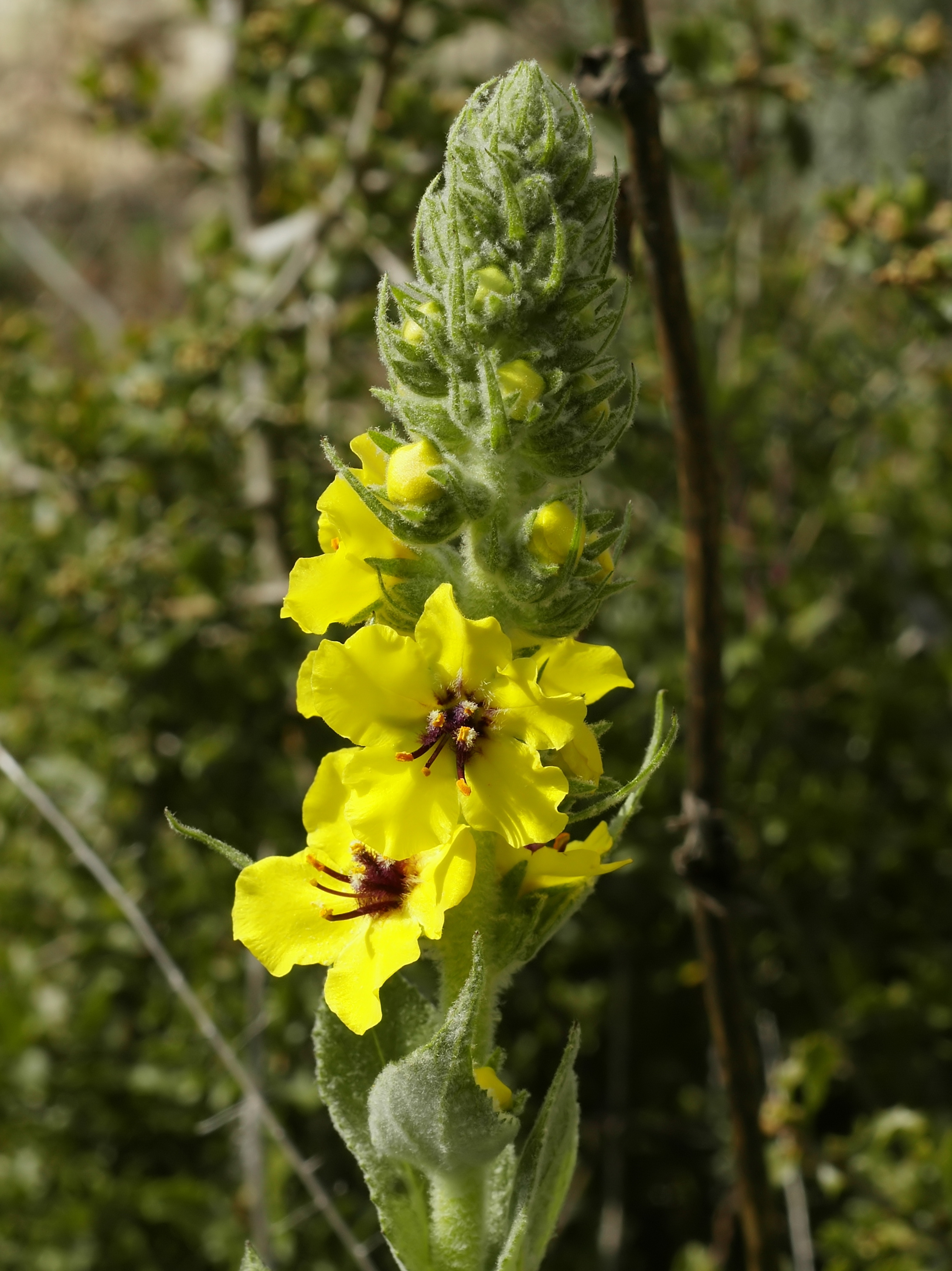 Annual Mullein near Font de Tita, el Perelló (Catalonia), Spain